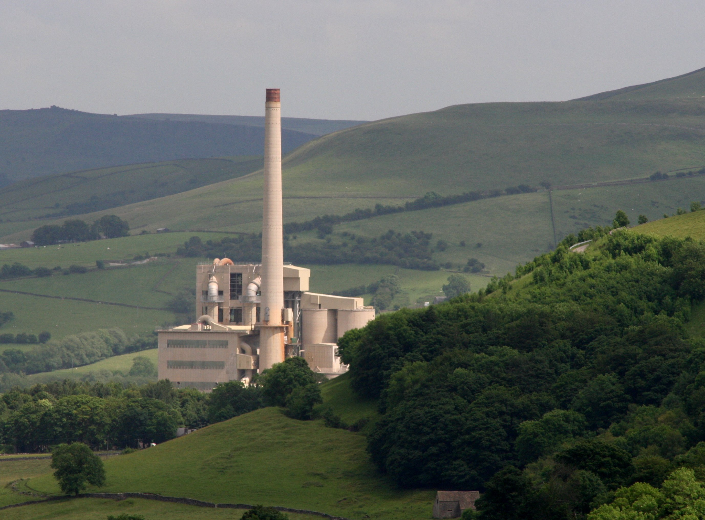 Hope Cement Works, near Hope, Derbyshire, England. Photographed from entrance to Treak Cliff Cavern, Castleton.